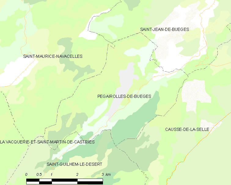 Map commune FR insee code 34195.png - Pégairolles-de-Buèges